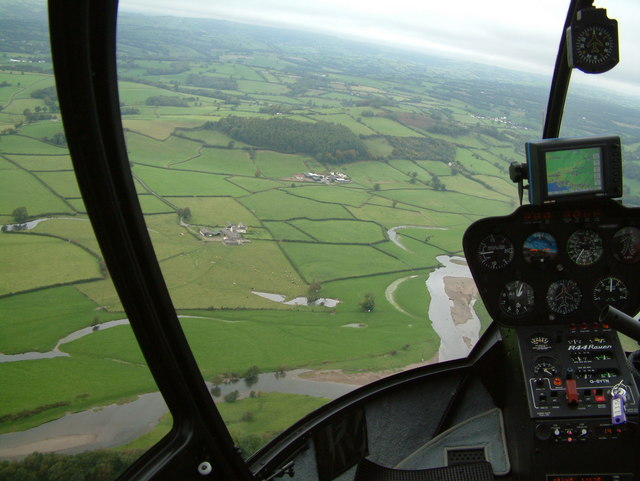 Towy Valley Farms and Farmland The farm in the foreground is Pentre-Davis and the one behind and to the right is Alltygaer. Notice the numerous oxbow lakes of the River Towy in the foreground. Behind Alltygaer is a 140m high hill upon which once stood a fort, Grongaer. Behind this (just above the helicopter's satnav) is Aberglasney.